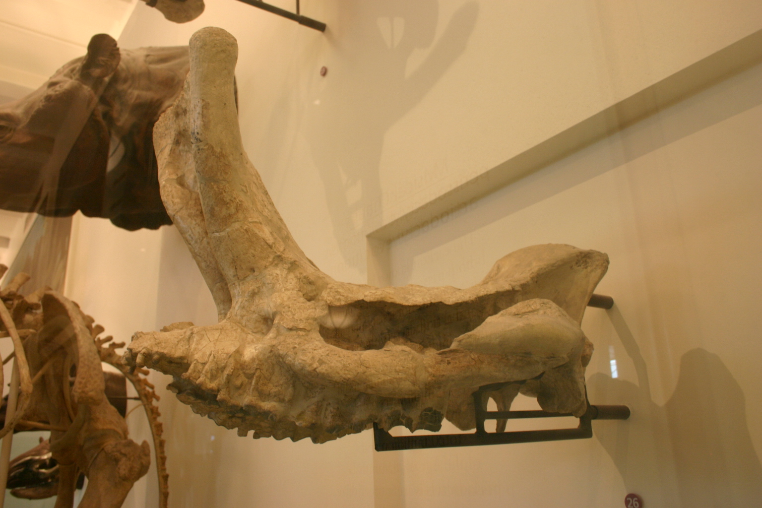 Embolotherium andrewsi